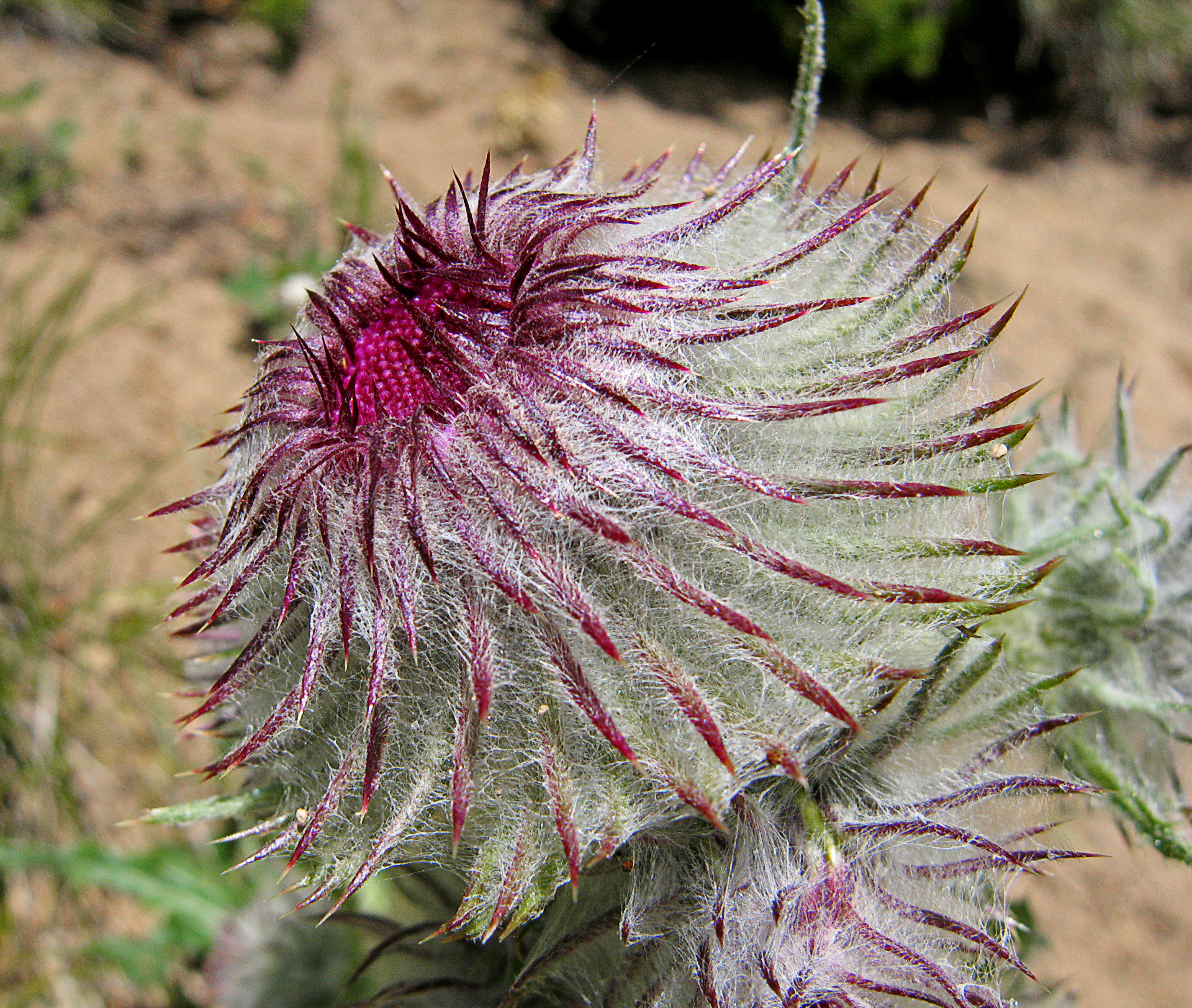 Edible Thistle alongside Noble Knob Trail #1184, Mount Baker-Snoqualmie National Forest